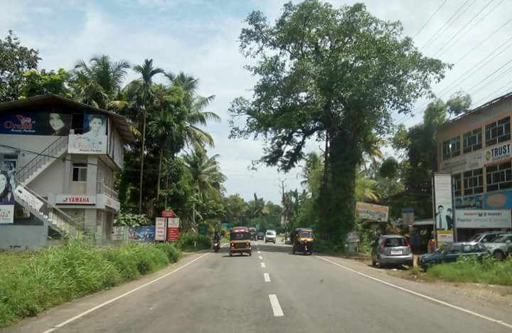 Nellimutilpaddi Adoor